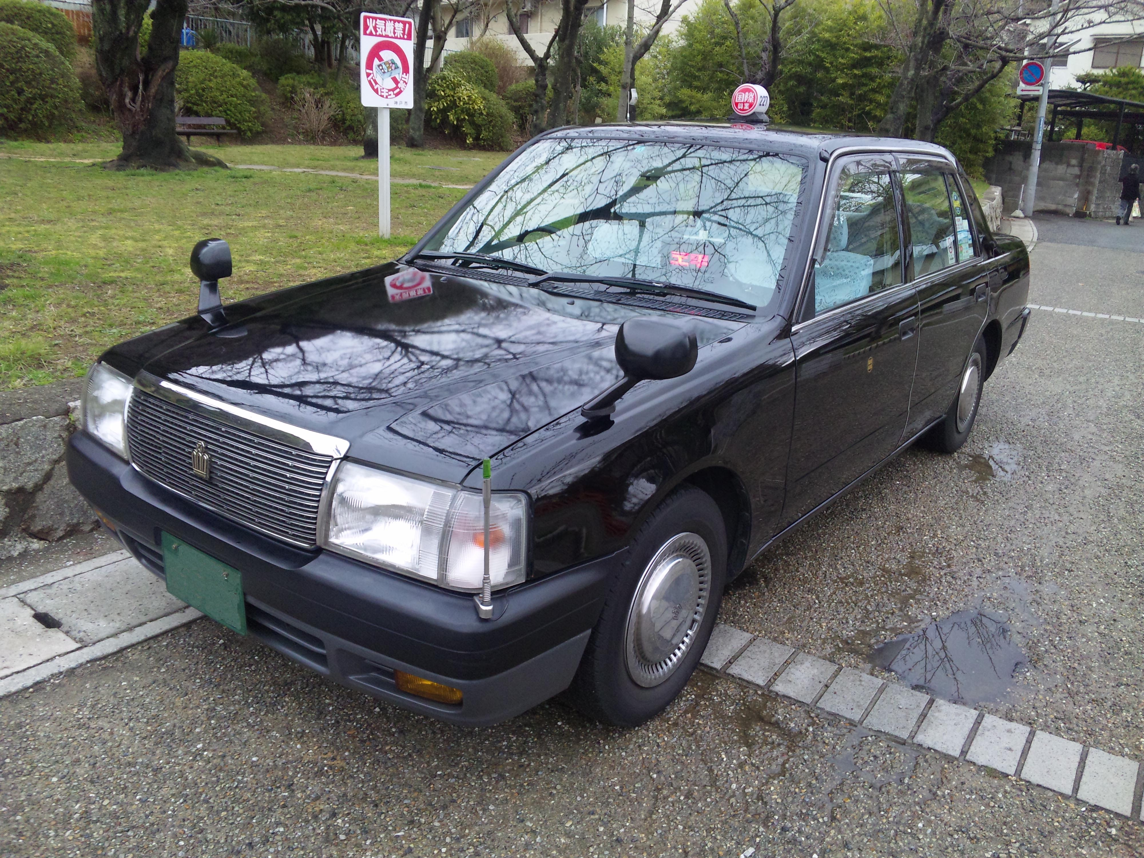 Kokusai kogyo kobe taxi